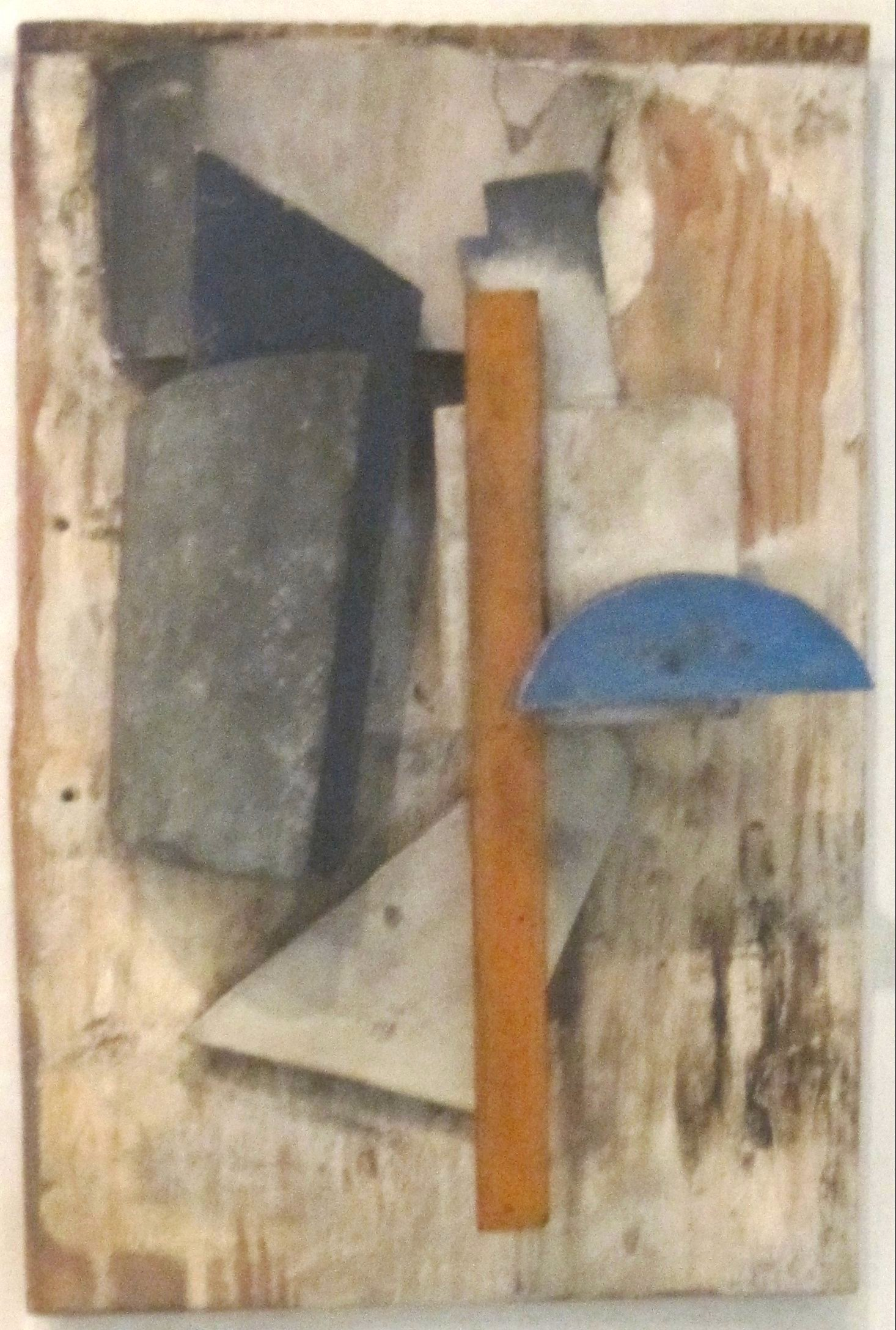 Relief, oil paint, wood, cardboard and zinc onwood sculpture by Iwan Puni (Jean Pougny) (1892-1956), c. 1915-16, Tate Modern